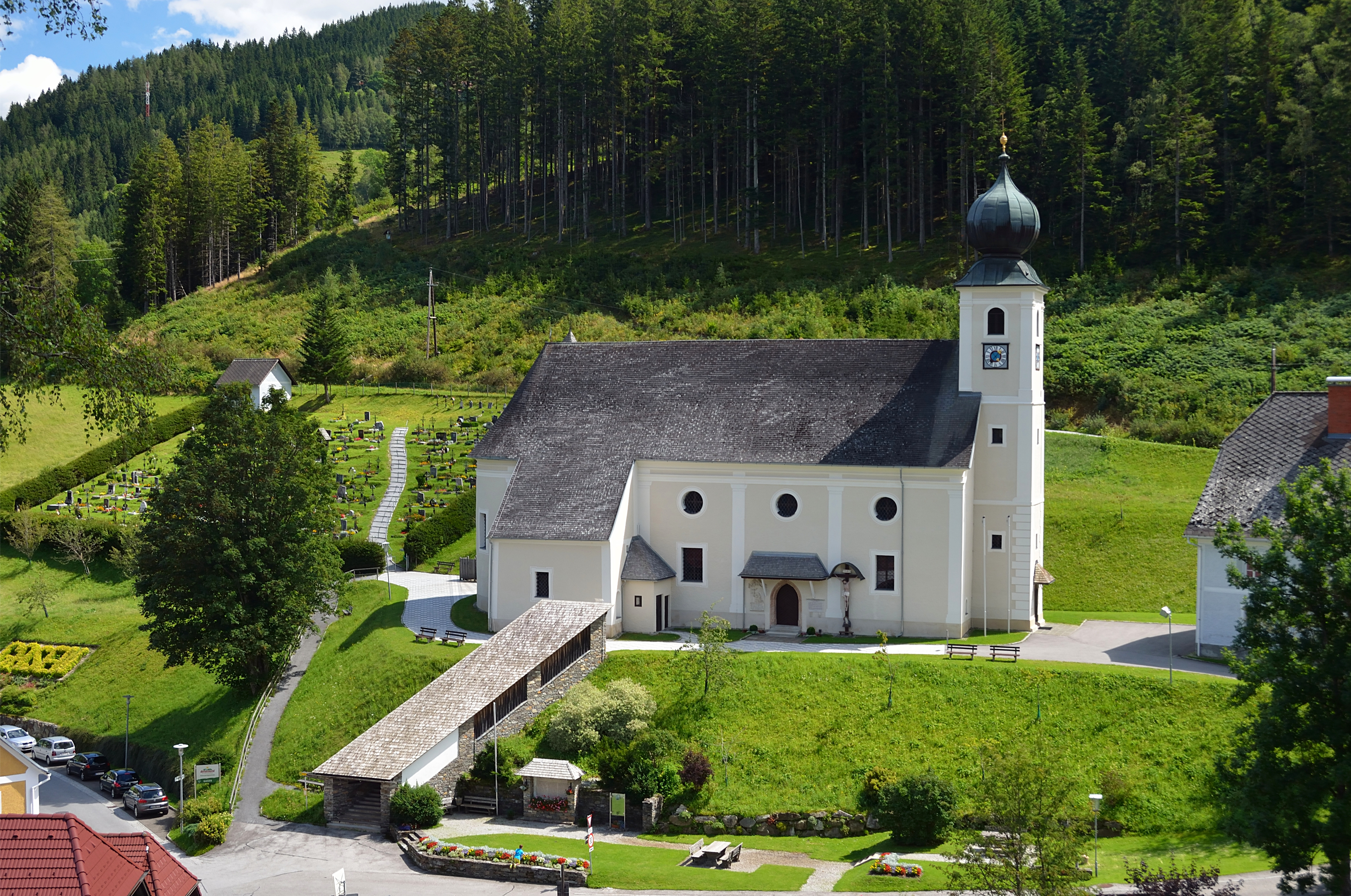 Parish church St. Oswald and former cemetery surrounding the church at Gasen, Styria.